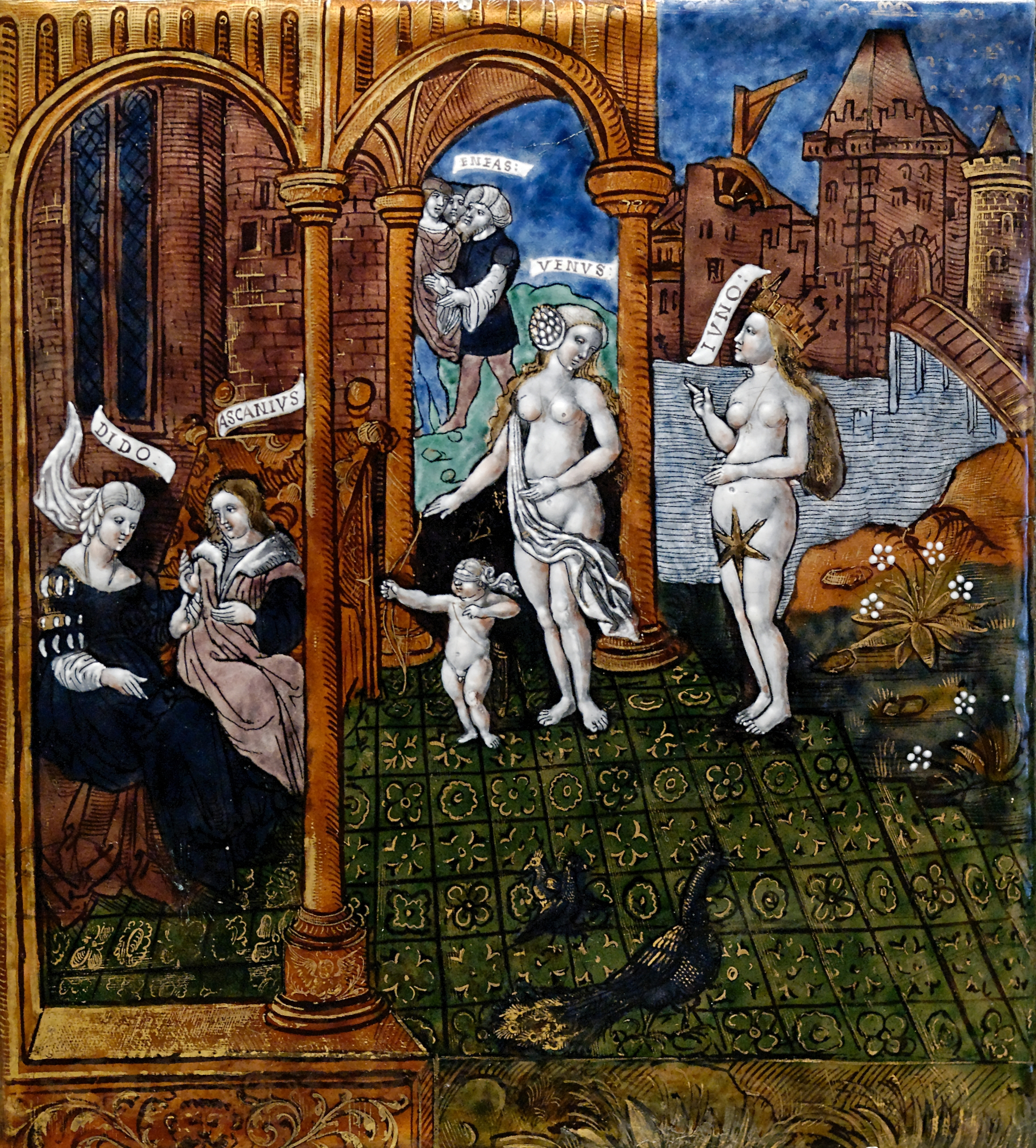 Venus and Juno provoke Dido's love for Aeneas. Painted Limoges enamel plaque, ca. 1530.